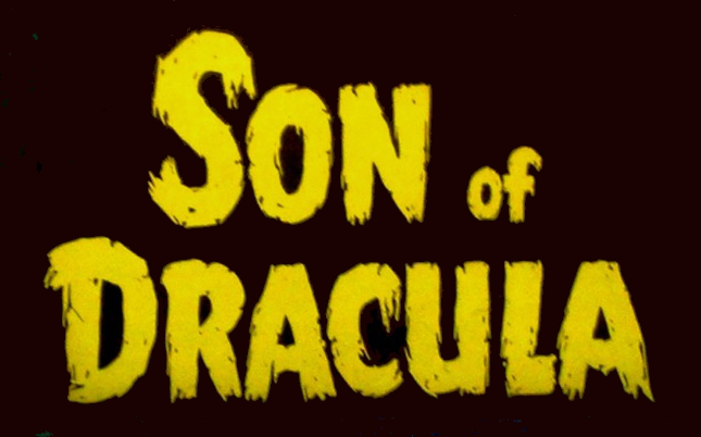 Official logo of the movie Son of Dracula